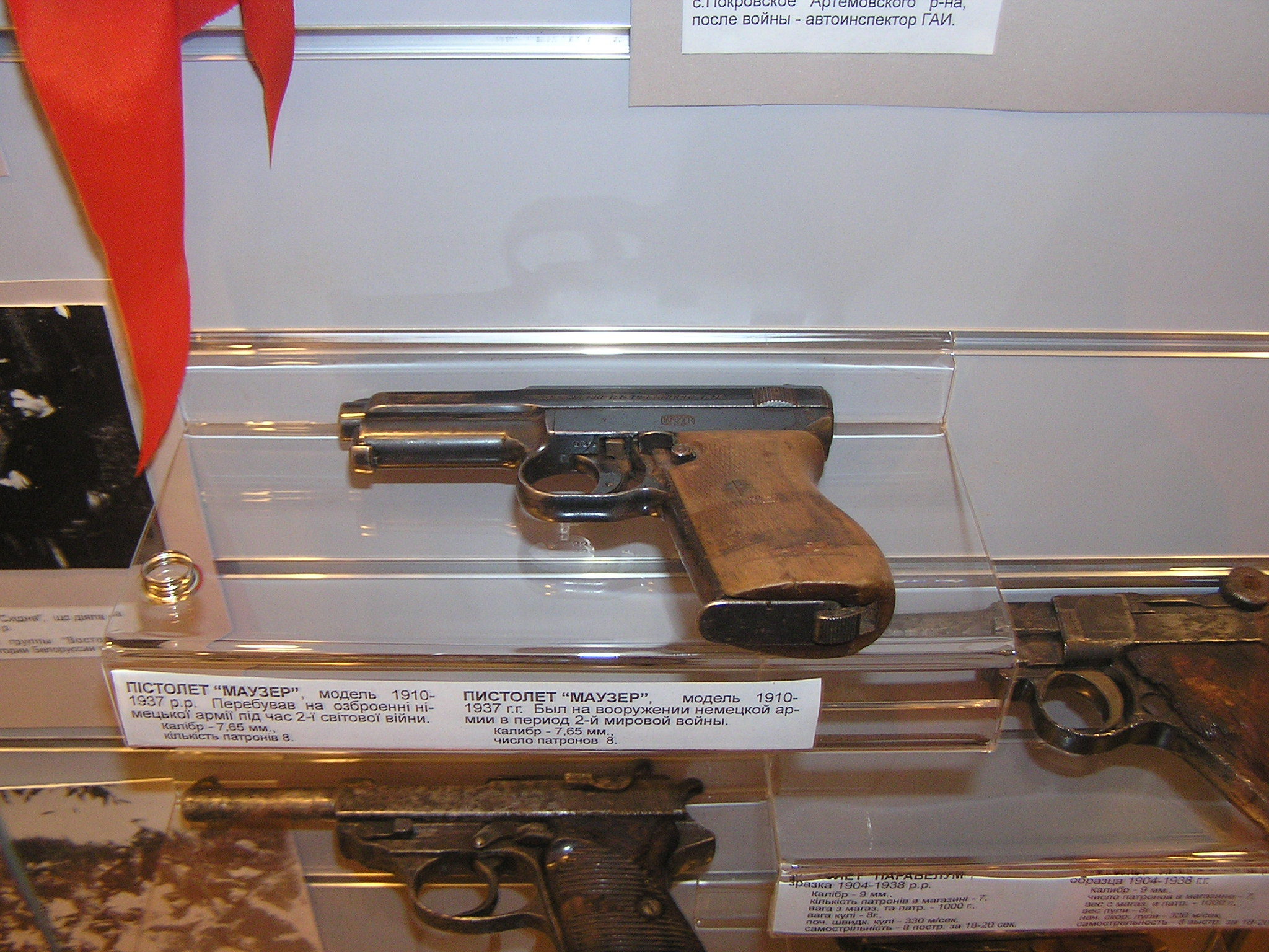 Museum of the History of Donetsk militsiya